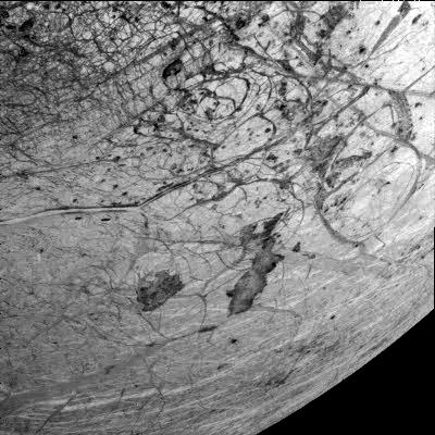 Original description: This image of Europa's southern hemisphere was obtained by the solid state imaging (CCD) system on board NASA's Galileo spacecraft during its sixth orbit of Jupiter. The upper left portion of the image shows the southern extent of the "wedges" region, an area that has undergone extensive disruption. South of the wedges, the eastern extent of Agenor Linea (nearly 1000 kilometers in length) is also visible. Thera and Thrace Macula are the dark irregular features southeast of Agenor Linea. This image can be used by scientists to build a global map of Europa by tying such Galileo images together with images from 1979 during NASA's Voyager mission. Such lower resolution images also provide the context needed to interpret the higher resolution images taken by the Galileo during both its nominal mission and the upcoming Europa mission. North is to the top of the picture and the sun illuminates the surface from the right. The image, centered at -40 latitude and 180 longitude, covers an area approximately 675 by 675 kilometers. The finest details that can be discerned in this picture are about 3.3 kilometers across. The images were taken on Feb 20, 1997 at 12 hours, 55 minutes, 34 seconds Universal Time when the spacecraft was at a range of 81,707 kilometers.